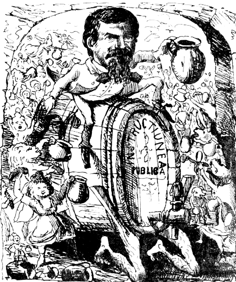 Banchetul noueĭ direcţiĭ la borta rece patronat de Muerilă ("Banquet of the new direction at the cool hole, with Womanizer as its patron"), cartoon published in Ghimpele, the Romanian liberal magazine. The joke references Junimea, a literary society and conservative political club, whose program was a strong critique of liberal ideology. With this and other cartoons, Ghimpele picks up on rumors that Junimea meetings had degenerated into bacchanals. Junimea leader Titu Maiorescu, who served as Minister of Education, is the central figure; his Ministry is a giant barrel, with naked human legs and a stopper for a sex organ. Maiorescu, who distributes jugs of alcohol among his clients and the loose women entertaining them, is referred to as Muerilă ("Womanizer"), a reference to his involvement in several sex scandals. The "cool hole" is a reference to a famous restaurant in Iaşi city - known in reality as Bolta Rece ("The Cool Vault"), it was managed by Avram Amira and frequented by the Junimea men.